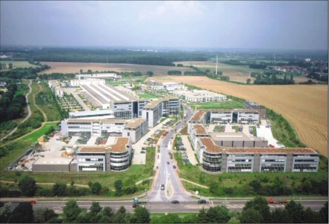 Industrial park Langenfeld, Germany. Cookson Electronics